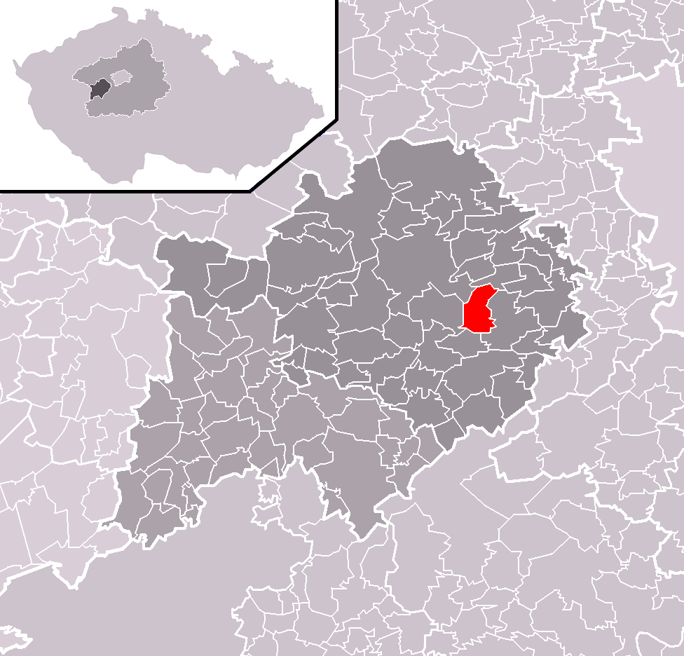 Location of Srbsko municipality within Beroun District and administrative area of Beroun as a Municipality with Extended Competence.